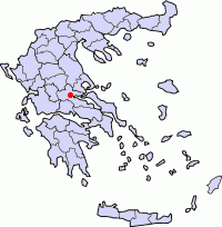 locator map, based on Image:Prefectures Greece grey.png